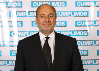 Jose Luis Manzano